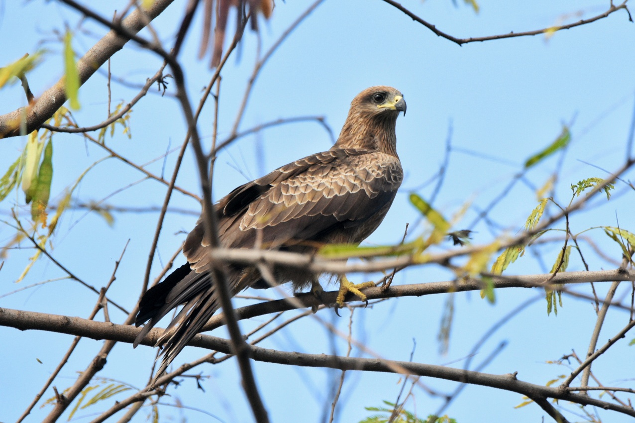 Black Kite at Dr. Salim Ali Biodiversity Park, Pune.